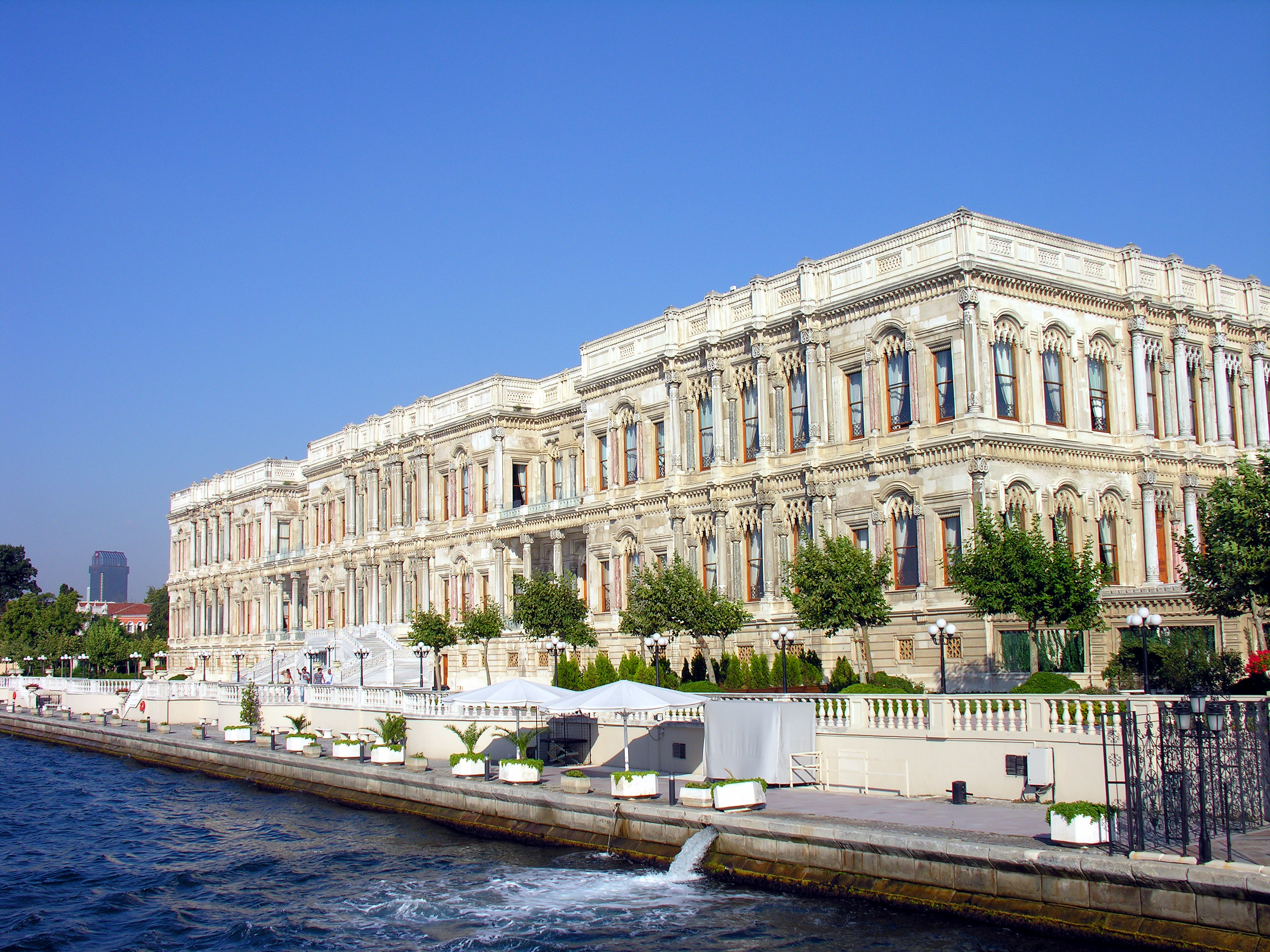 Ciragan Palace Hotel Kempinski Istanbul (Kazancioglu Garden)